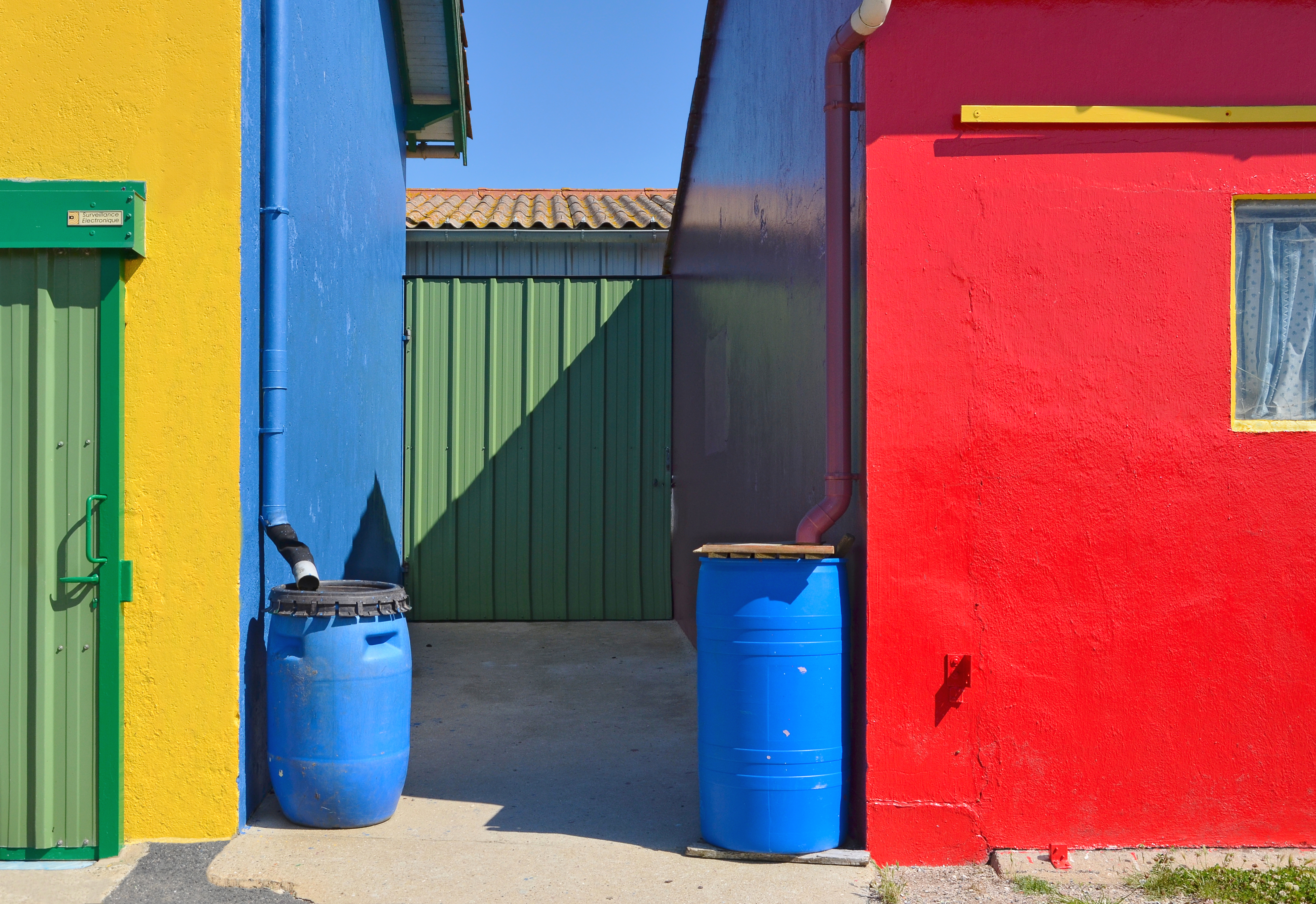 Tanks for rainwater harvesting, La Cayenne, Marennes, Charente-Maritime, France.